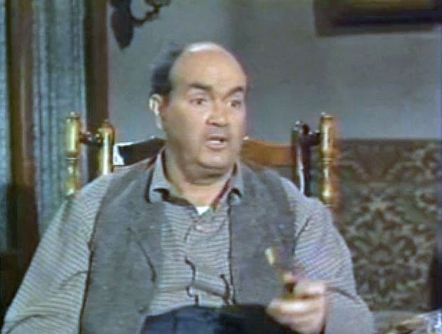 Cropped screenshot of Rhys Williams from the television series Bonanza. Episode: "Bitter Water" (1960).